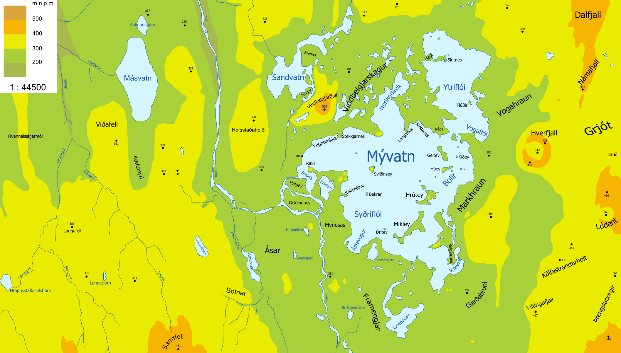 Hypsometric and hydrology lake Mývatn